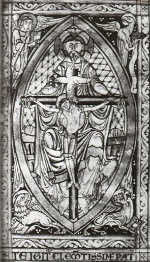 Throne of Mercy: miniature in the Cambrai Missal